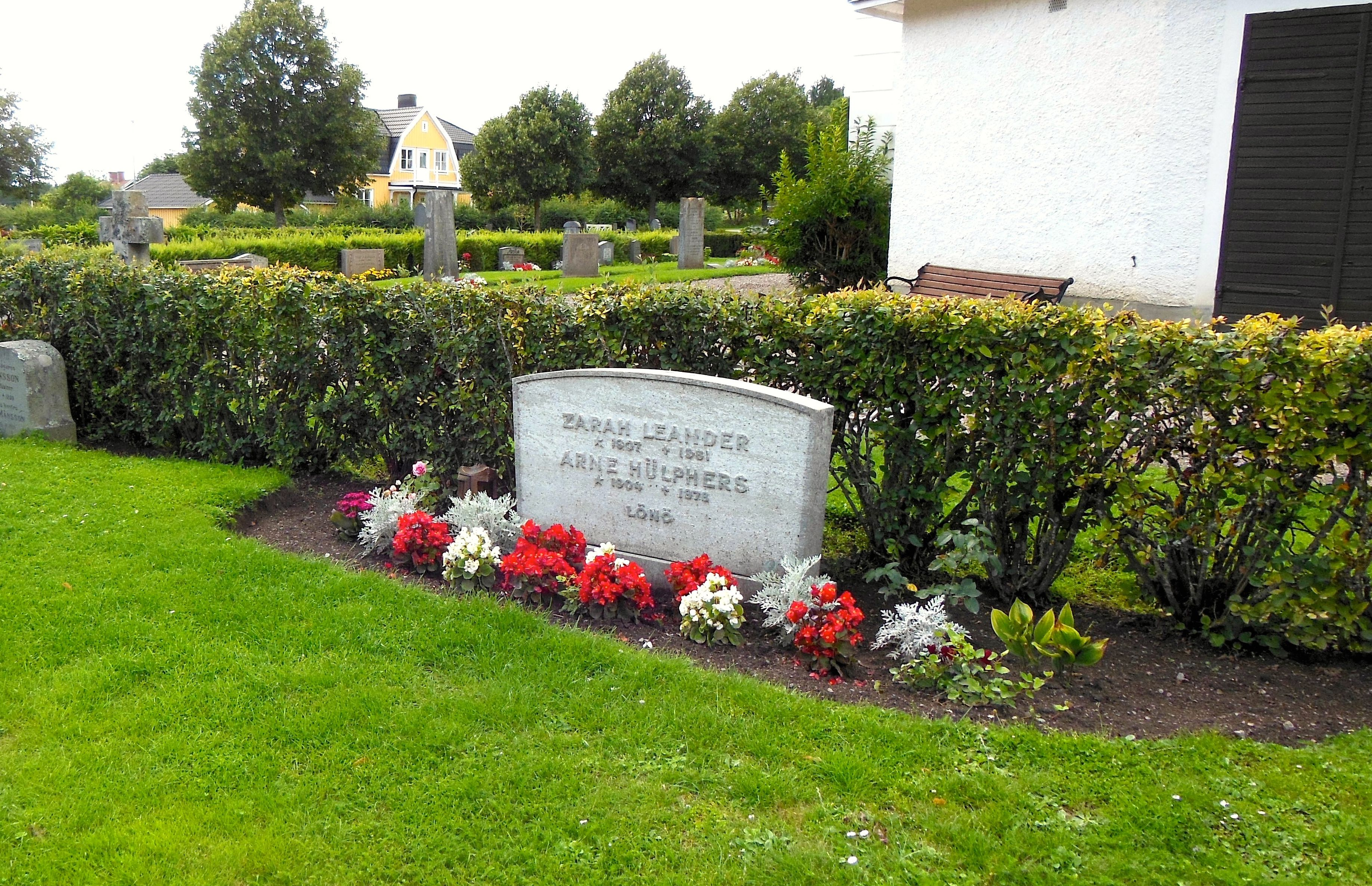 Zarah Leander's grave in Häradshammar, Norrköping Municipality